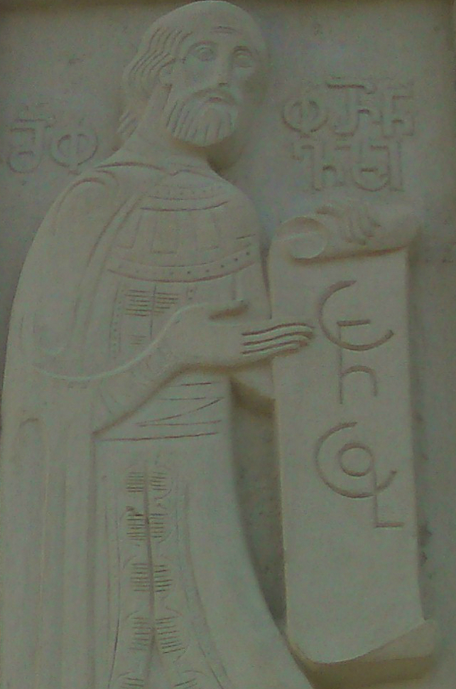 Relief of King Pharnavaz I of Iberia.